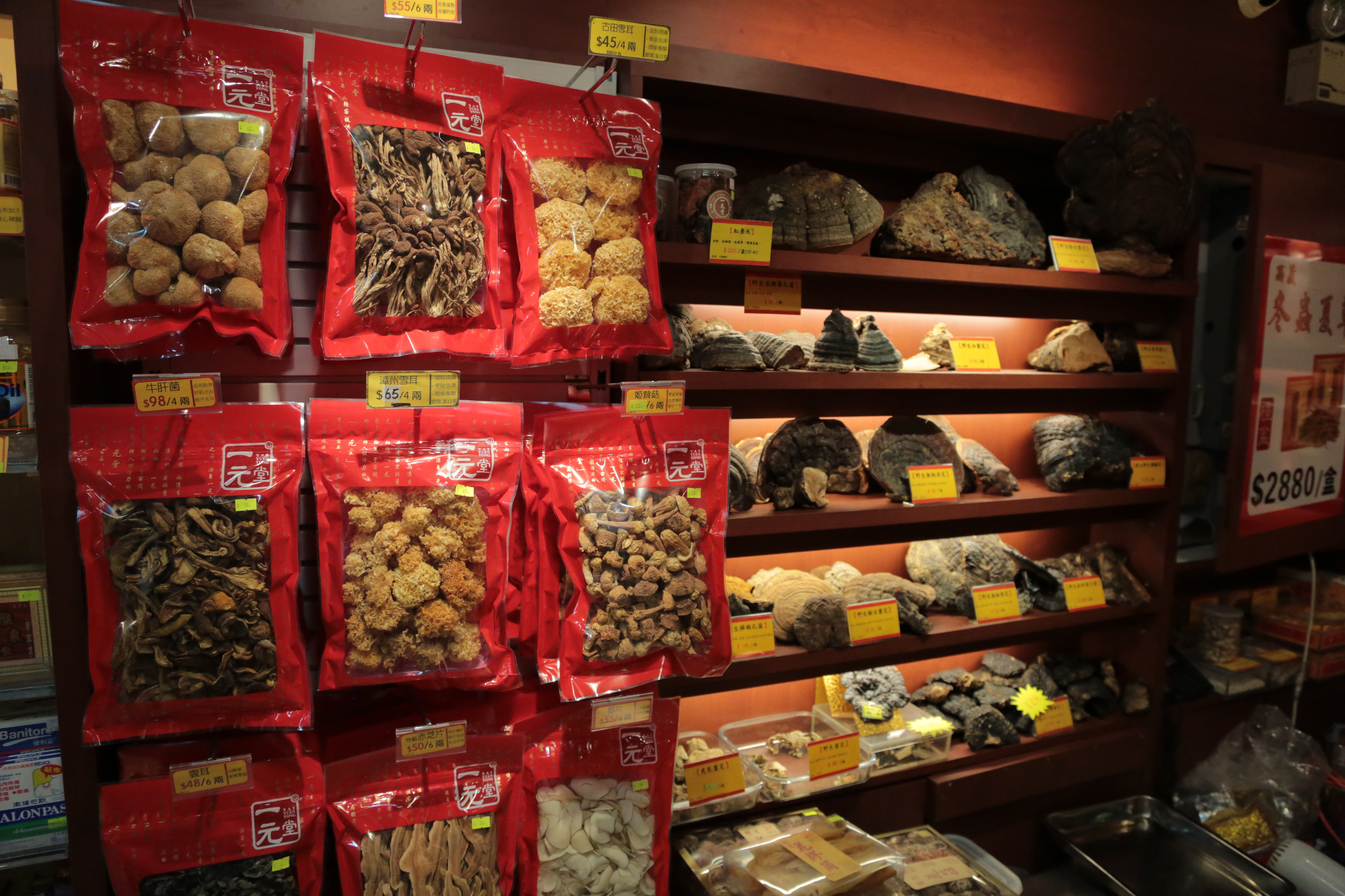 Mushrooms for sale in Hong Kong